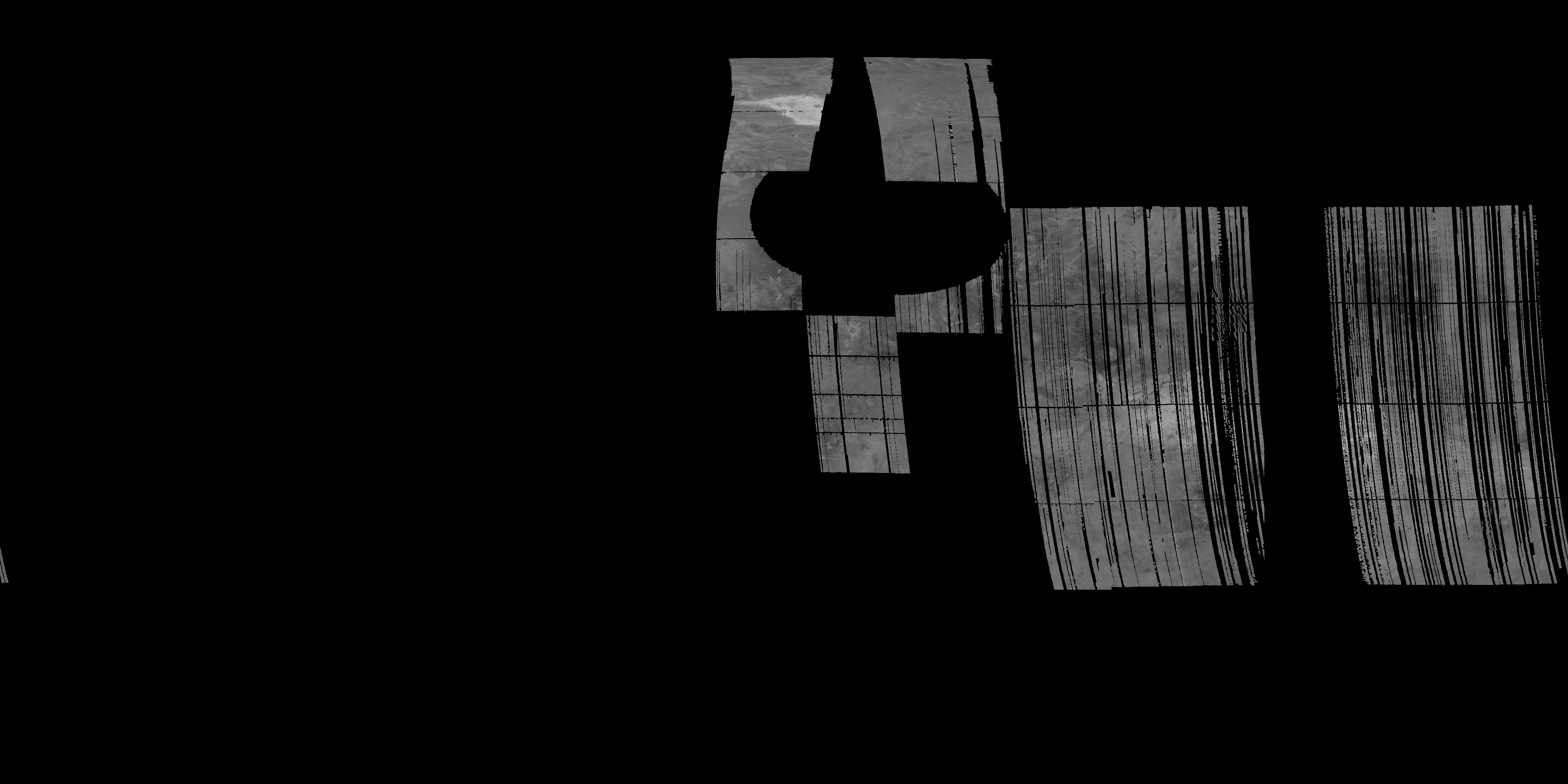 Map acquired by Magellan during cycle 3.